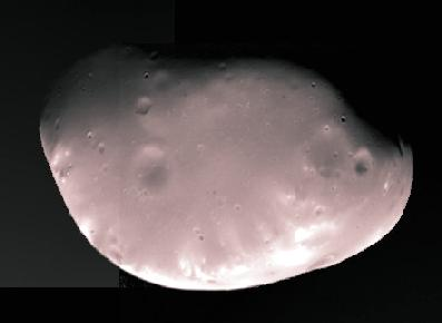 Astronomy Picture of the Day October 3, 1995 Deimos: A Small Martian Moon Explanation: Mars has two tiny moons, Phobos and Deimos. Pictured above is Deimos, the smallest moon of Mars. In fact, Deimos is the smallest known moon in the Solar System measuring only 9 miles across. The diminutive Martian moons were discovered in 1877 by Asaph Hall, an American astronomer working at the US Naval Observatory in Washington D.C. The existence of two Martian moons was predicted around 1610 by Johannes Kepler, the astronomer who derived the laws of planetary motion. In this case, Kepler's prediction was not based on scientific principles, but his writings and ideas were so influential that the two Martian moons are discussed in works of fiction such as Jonathan Swift's "Gulliver's Travels", written in 1726, over 150 years before their actual discovery. NOTE - References - Noting Locations of Swift Crater and Voltaire Crater on Deimos, a Moon of Planet Mars